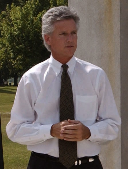 "Dignitaries attend at the 2002 Congressional Medal of Honor Society Convention Ceremony, held at Barksdale Air Force Base (AFB), Louisiana (LA). Pictured left-to-right Major, Don Mooring (USAF Retired); Mr. Keith Hightower, Mayor of Shreveport, LA; Mr. George Dement, Mayor of Bossier City, LA; and CHIEF Warrant Officer, Ron Adams (USN Retired)"